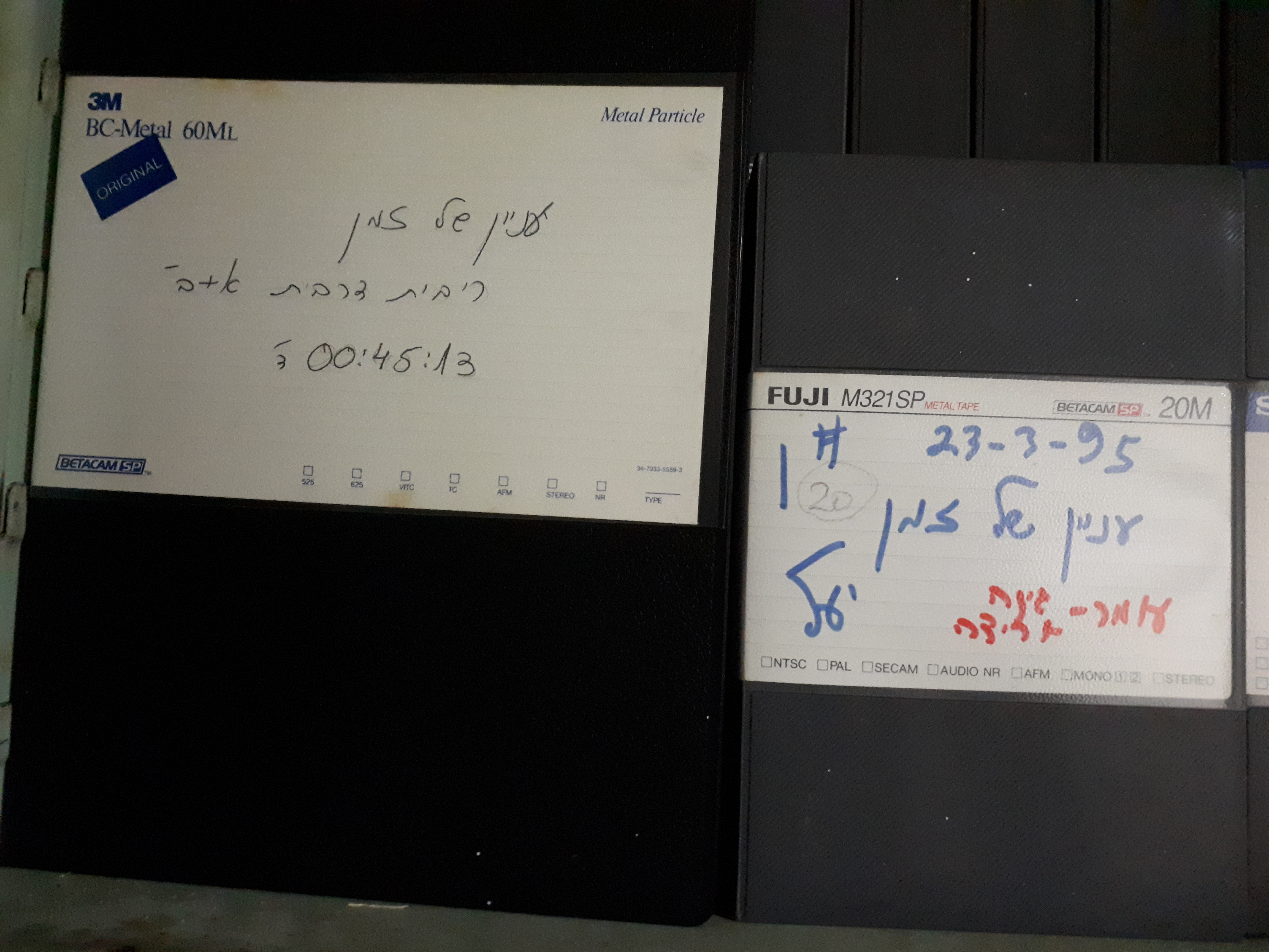 Archive and cassettes at the IETV. Tel aviv, April 2018